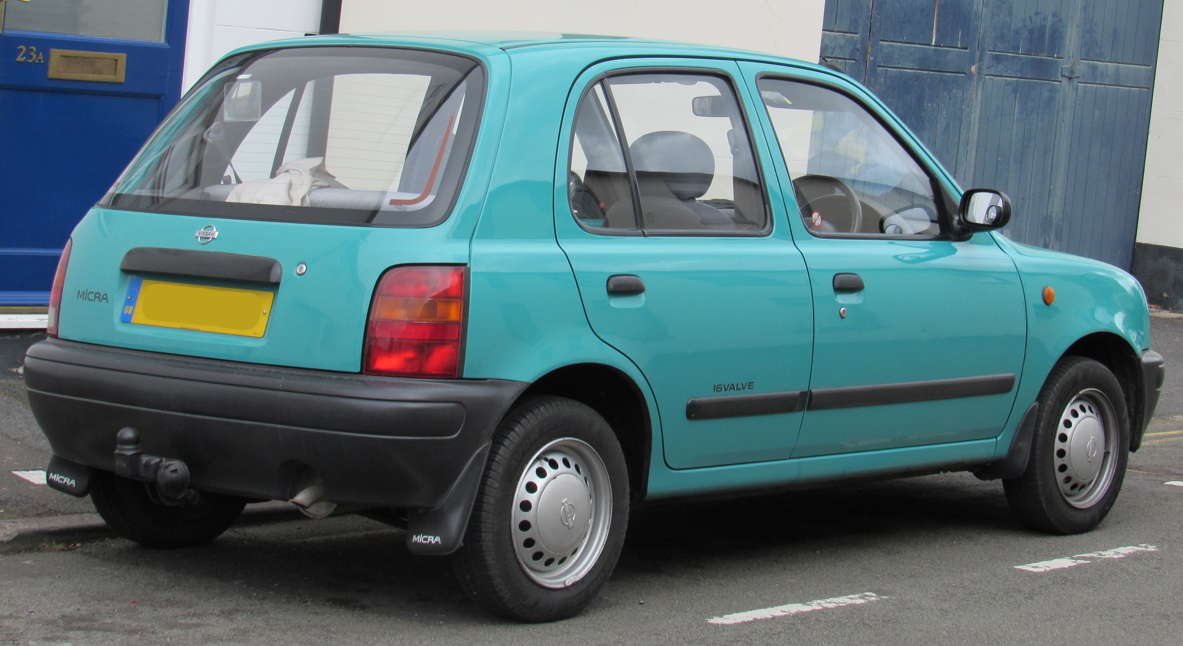 1995 Nissan Micra L 1.0 Rear